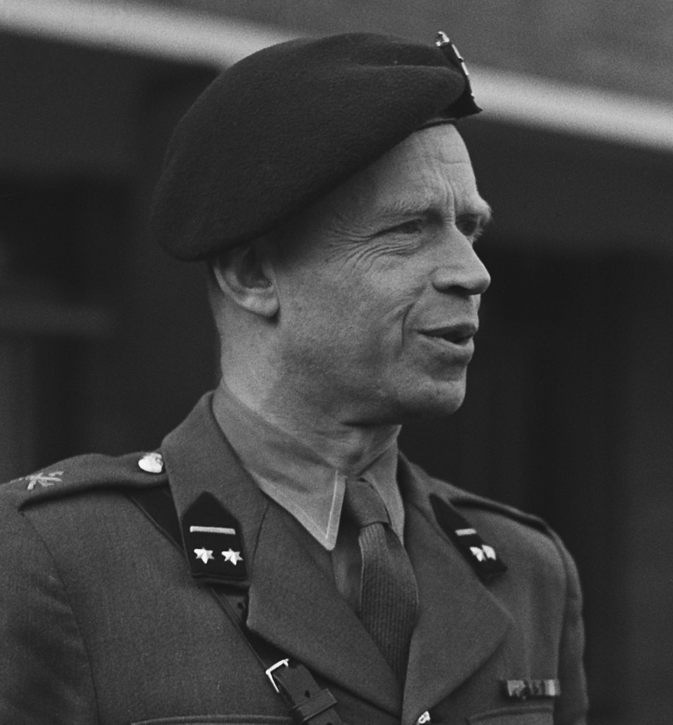 Johan Hendrik Albert Karel (Jan) Gualthérie van Weezel (Utrecht, March 5, 1905 - Geldrop, March 4, 1982) was a Dutch resistance fighter and military officer and he was chief of police in The Hague from 1952 to 1970. His nickname was "Jan Hak" (his first name and subsequent three initials).